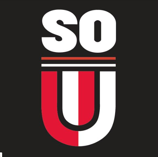 This is the current logo of Southern Oregon University (SOU) and should be used on its wikipedia entry. Thx.